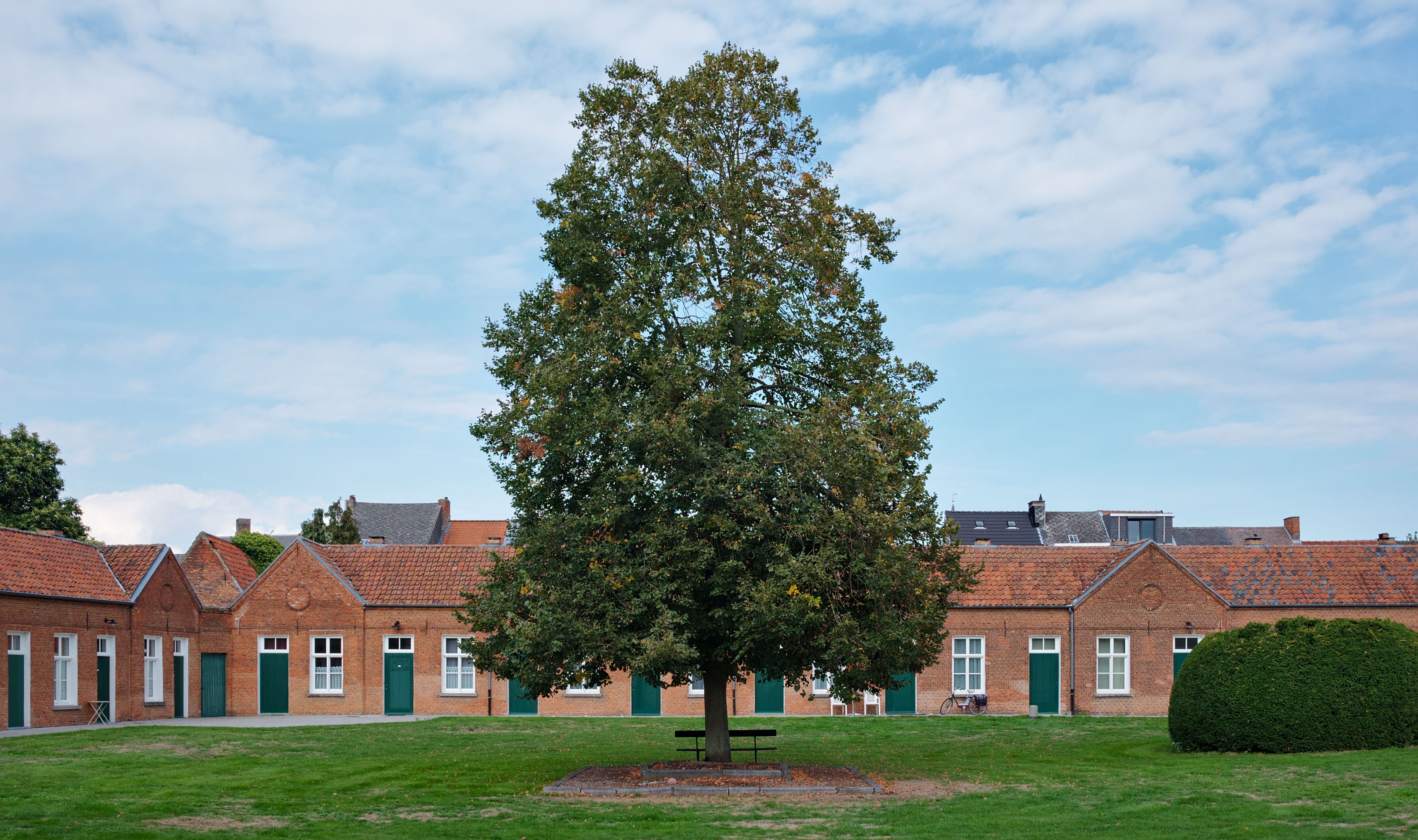 Godshuizen, Lier This photo of immovable heritage has been taken in the Flemish Region